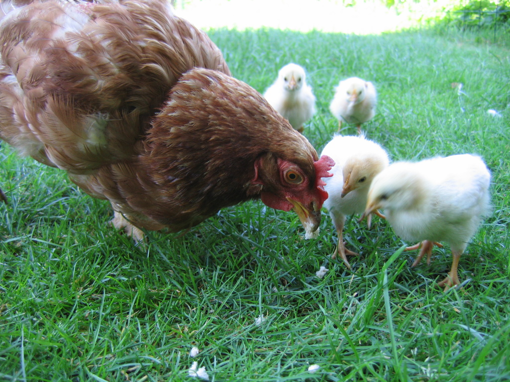 Hen with chickens in native breeding